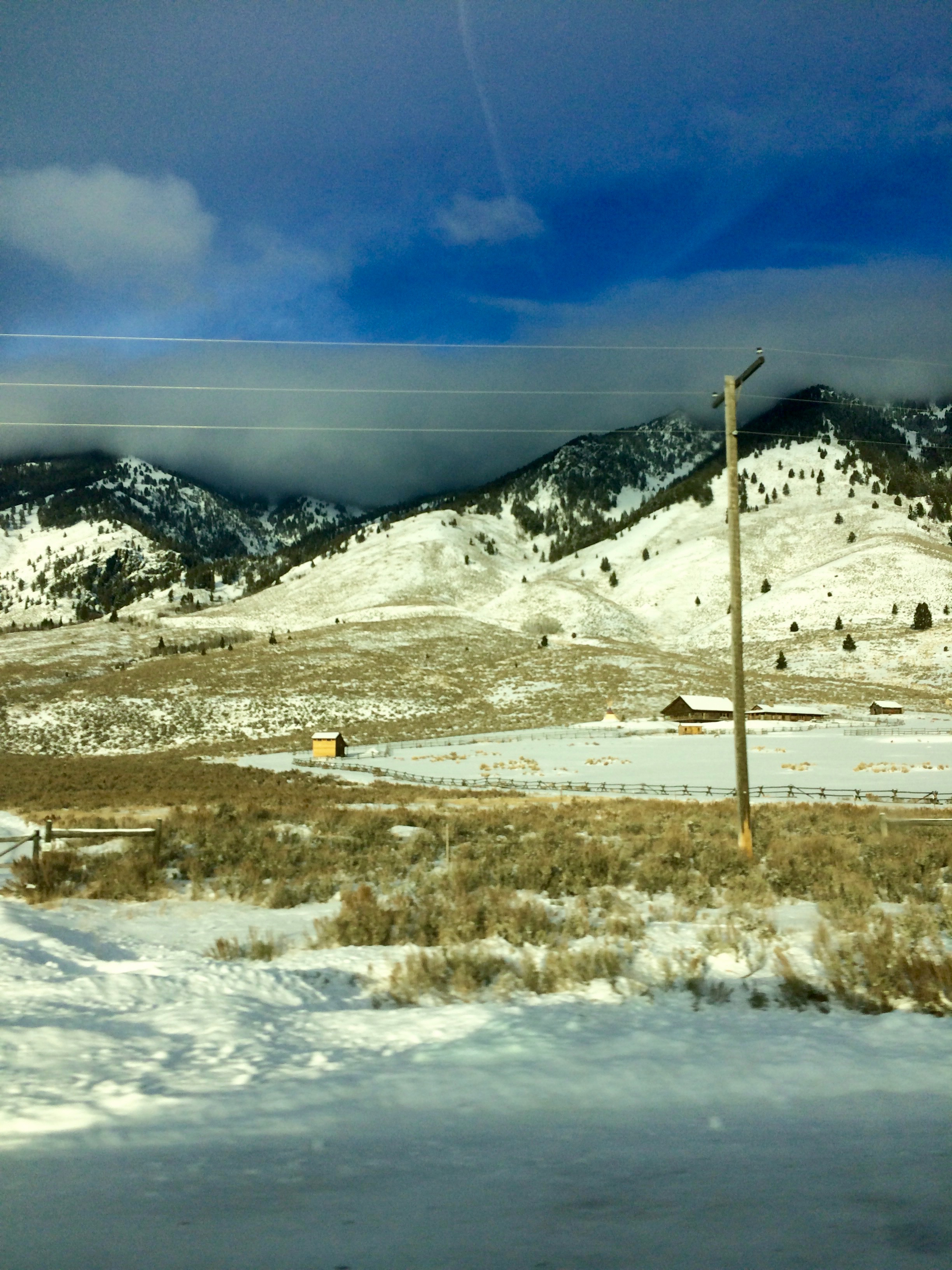 A photo of the rural and sparsely populated community of Cameron, Montana, at the foot of the Sphinx Mountain in Madison County.